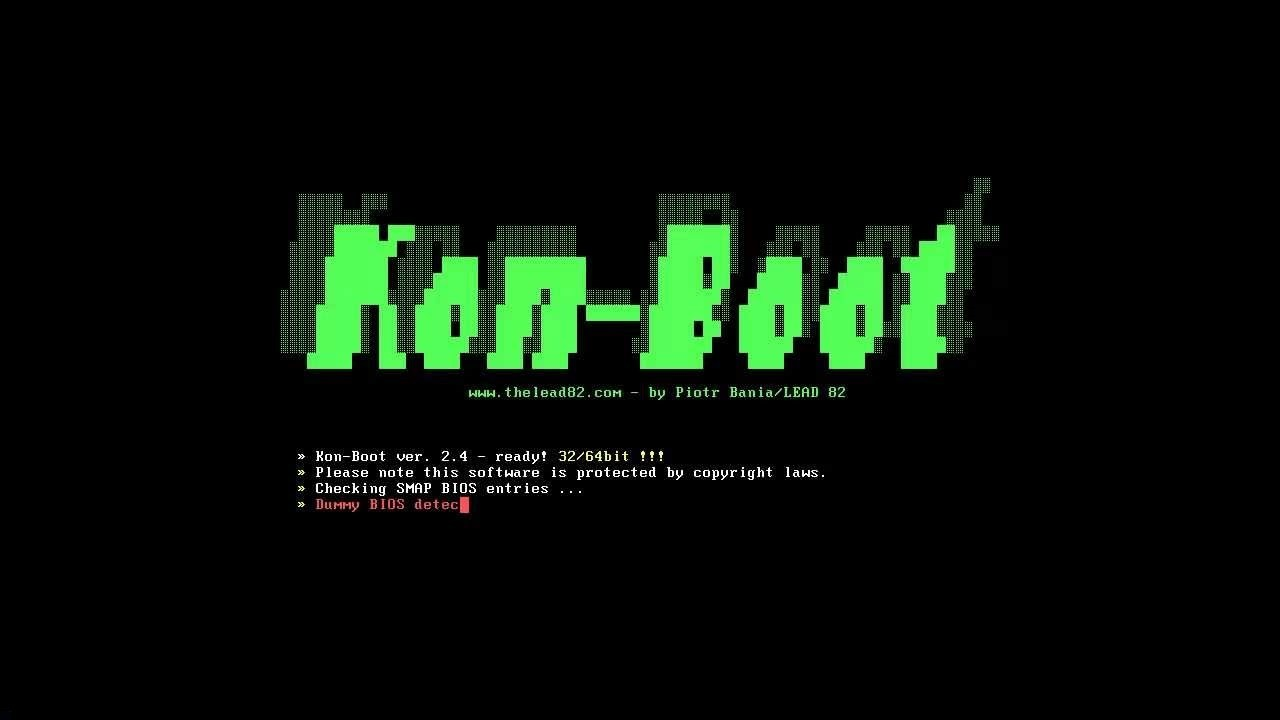 Image showing Kon-Boot booting on a target computer